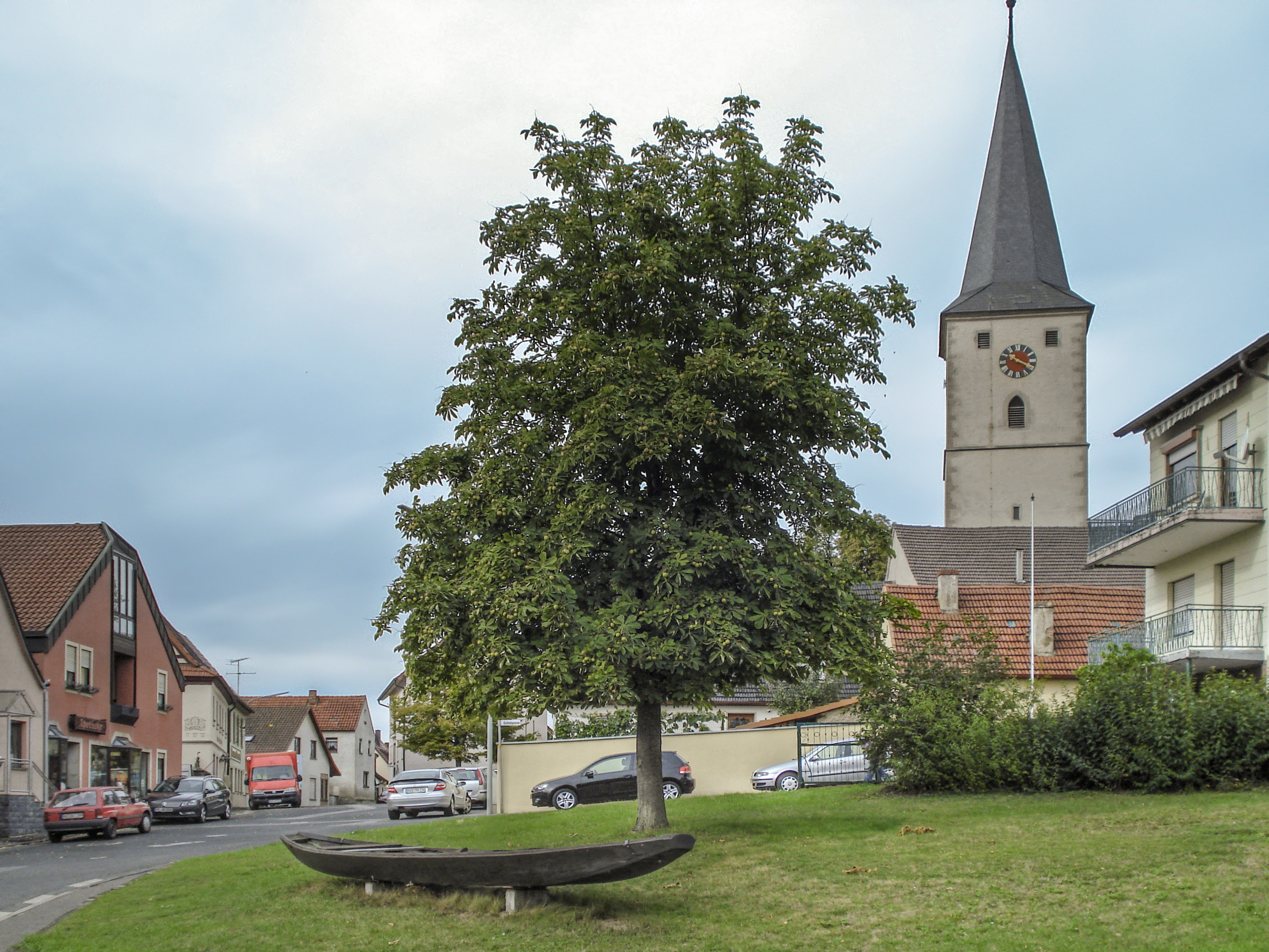 Knetzgau: Schelch und Kirche